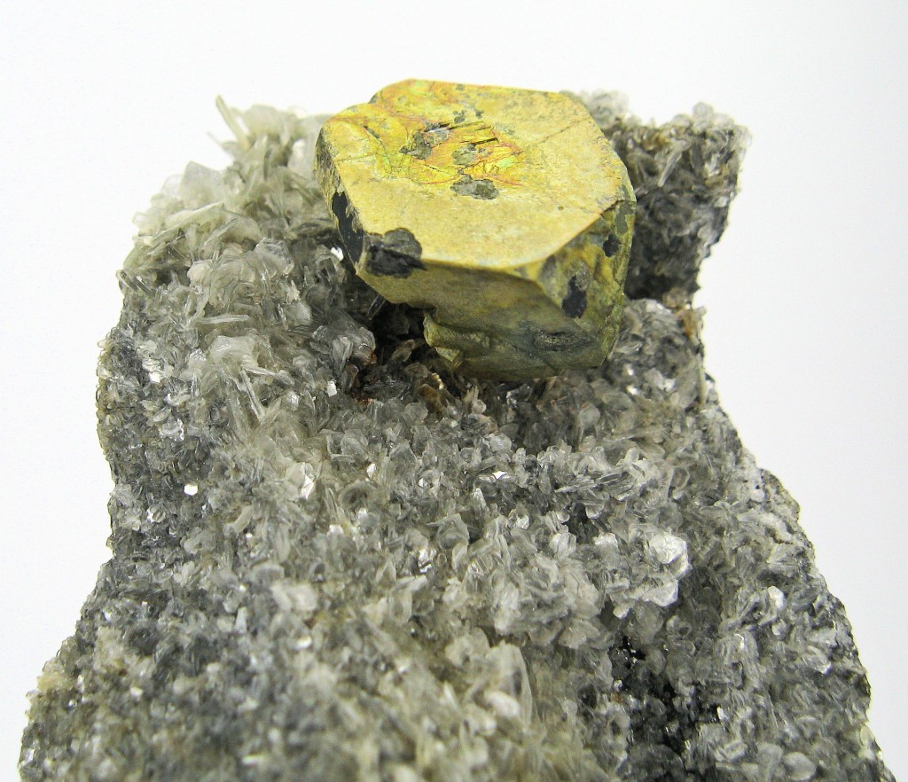 Kësterite, Mushistonite Locality: Mt Xuebaoding, Pingwu Co., Mianyang Prefecture, Sichuan Province, China Original description: Kësterite crystal covered with mushistonite on a matrix with mica. Overall size: 60 mm x 45 mm. Kësterite crystal size: 15 mm wide. Weight: 64 g. Undamaged.